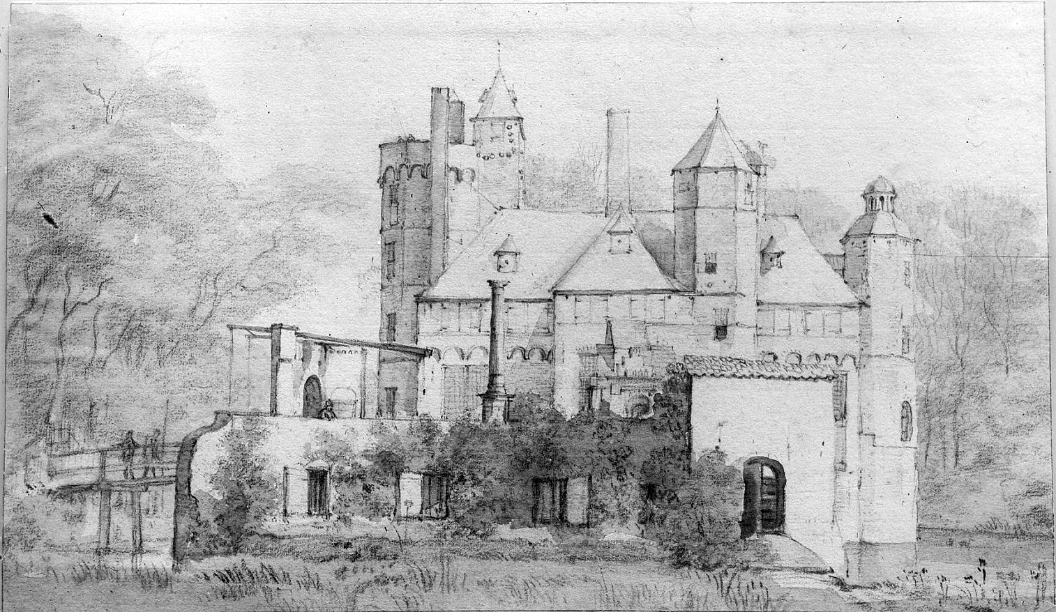 Persijn Castle, Wassenaar